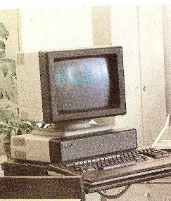 This picture was taken by me at M.Pupin Institute, Belgrade This is an image of the TIM-011 PC home computer, made in M.Pupin Institute(see : the TIM-011 article in en.Wikipedia) Also see: ( Marketing Dept of the IMP consents given)